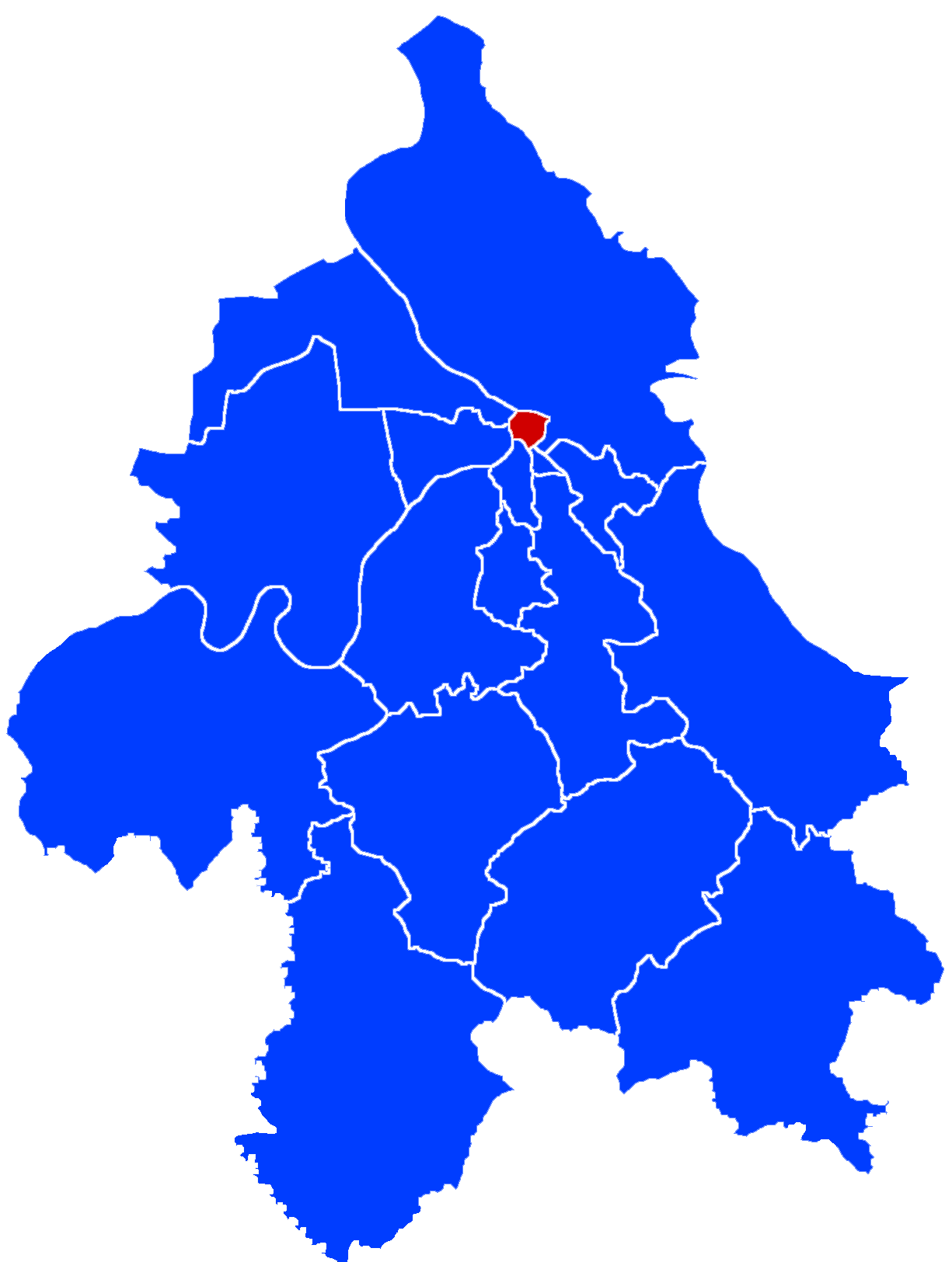 The graphical representation of the municipality of Stari Grad within the city of Belgrade